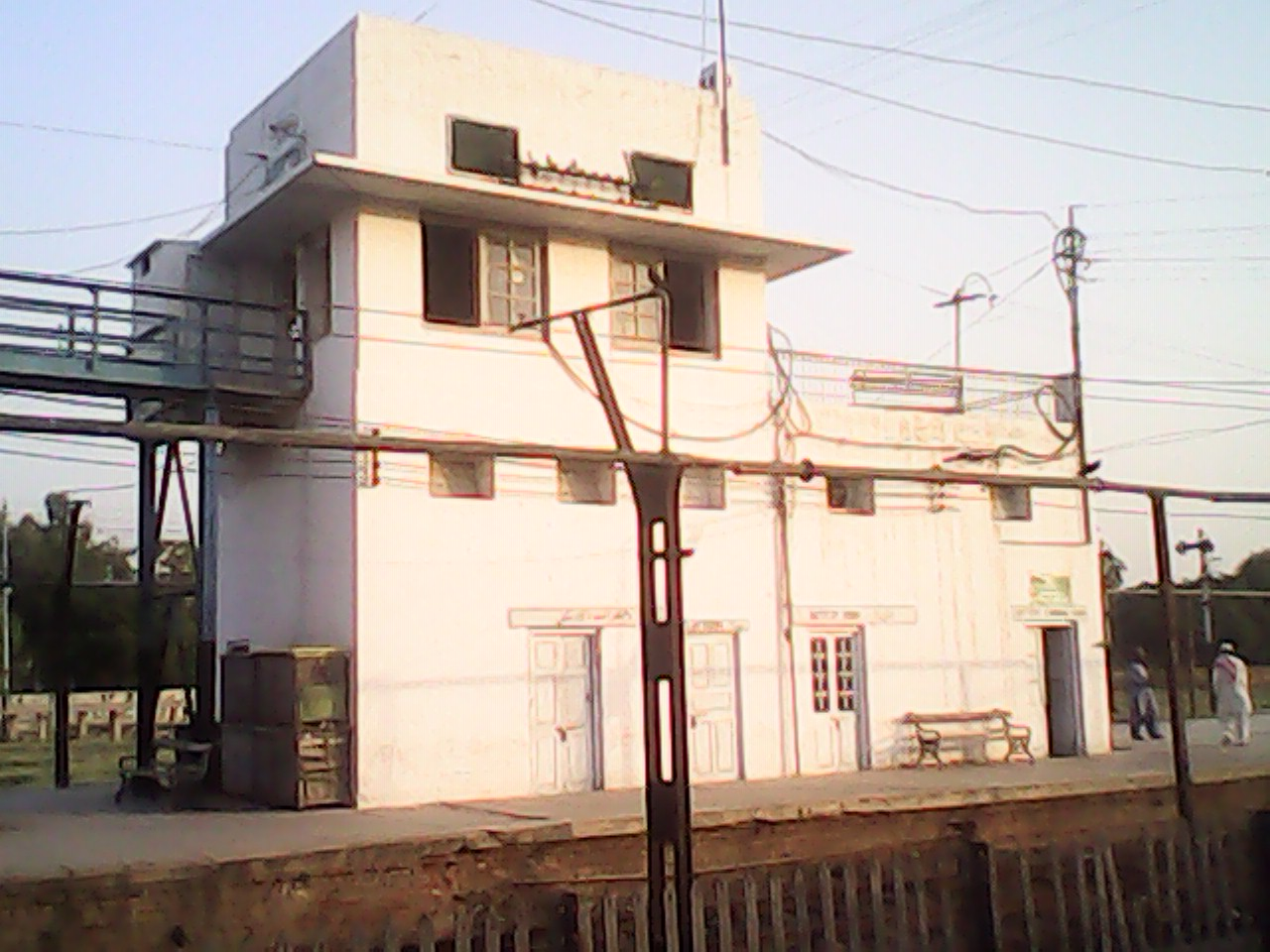 Faisalabad railway station This is a photo of a monument in Pakistan identified as the PB-U-10